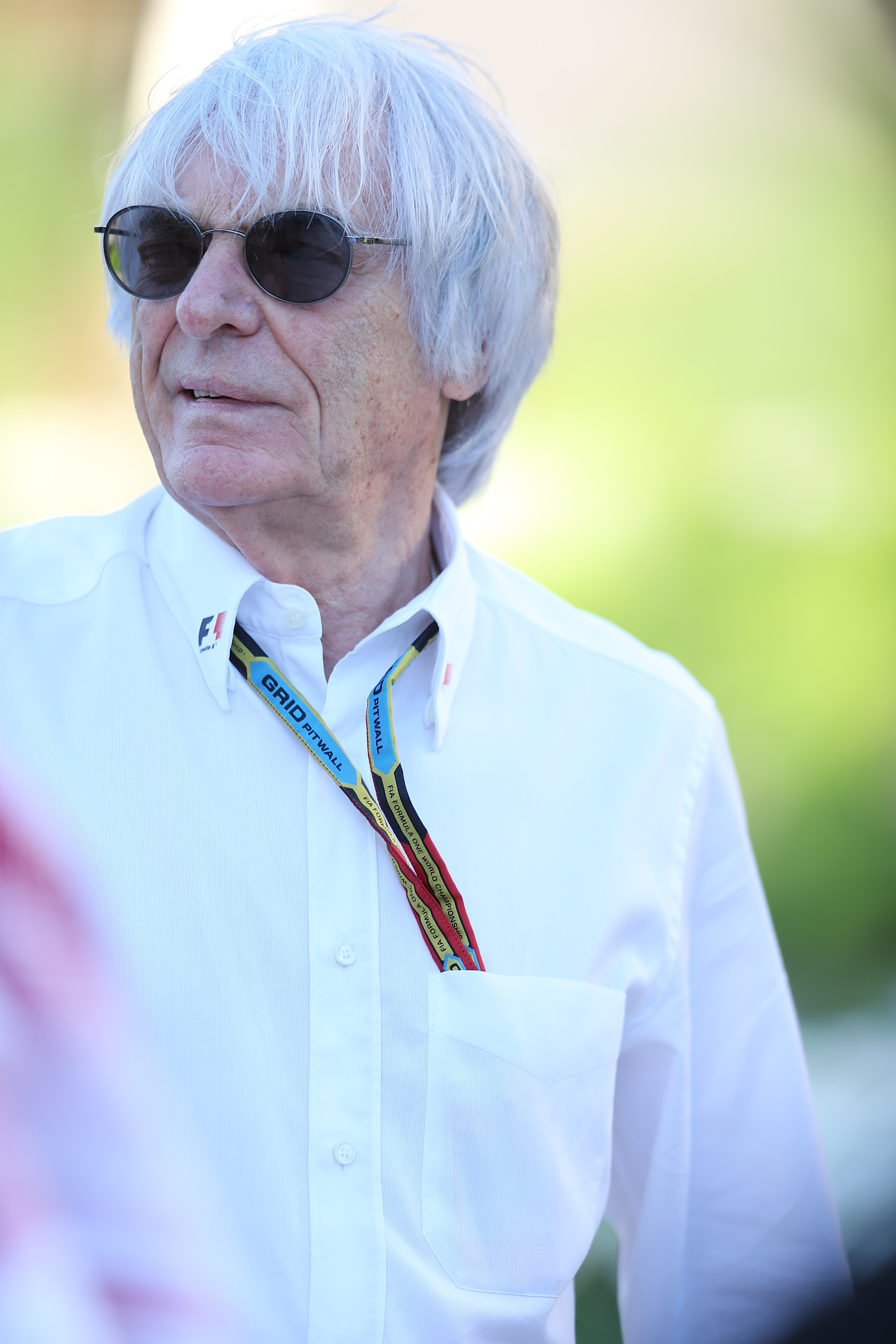 Bernie Ecclestone at the 2014 Bahrain Grand Prix